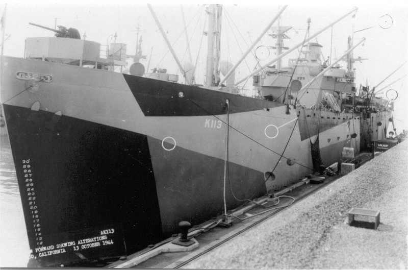 Rutilicus (AK-113) moored, probably while undergoing conversion for Naval Service in October 1943 at San Diego. Her camouflage is Measure 32 Design 11F. US Navy photo